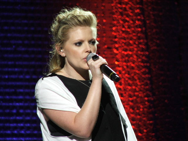 Natalie Maines of the Dixie Chicks in Austin, TX. Photo - Ron Baker.